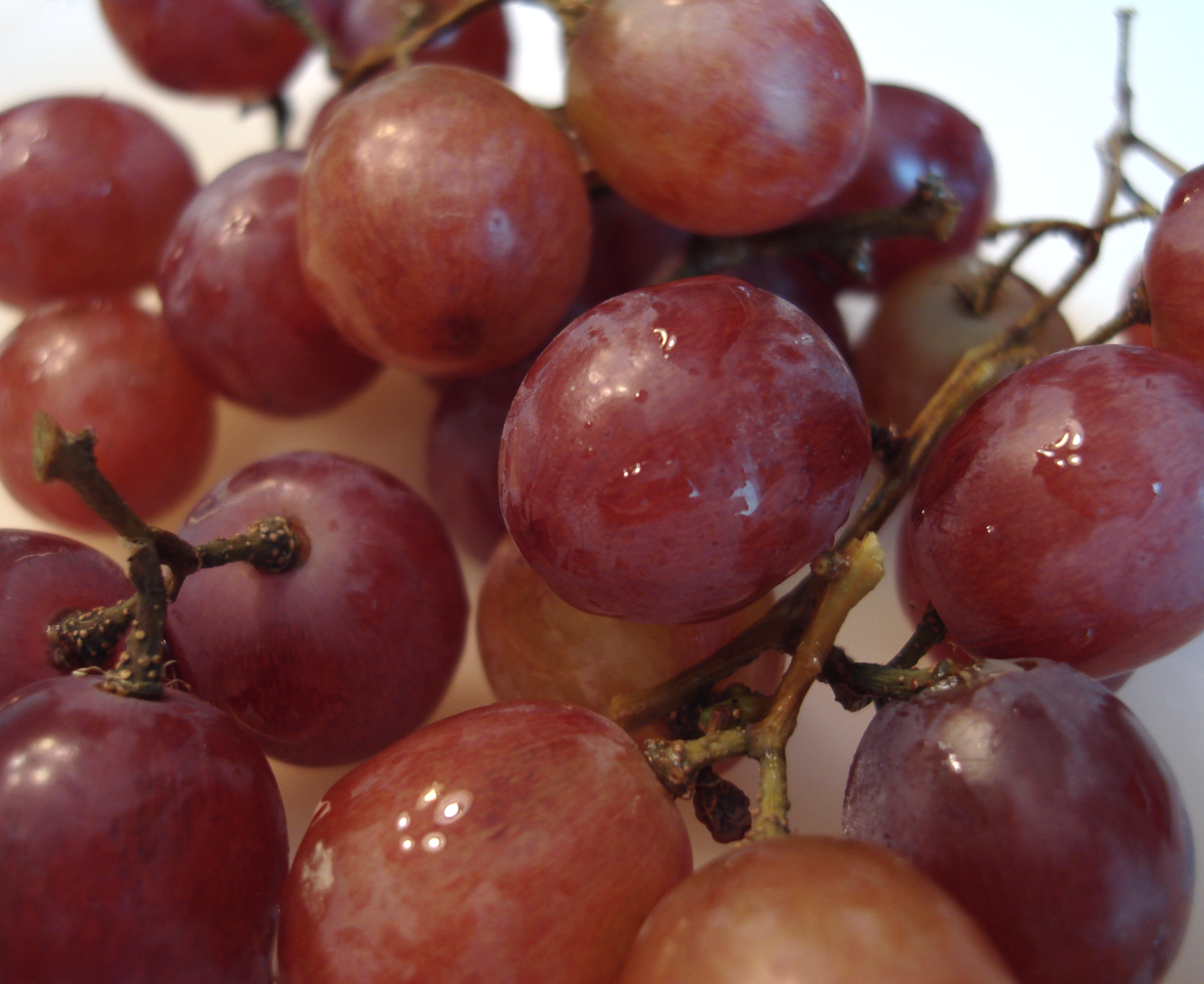 A bunch of red grapes